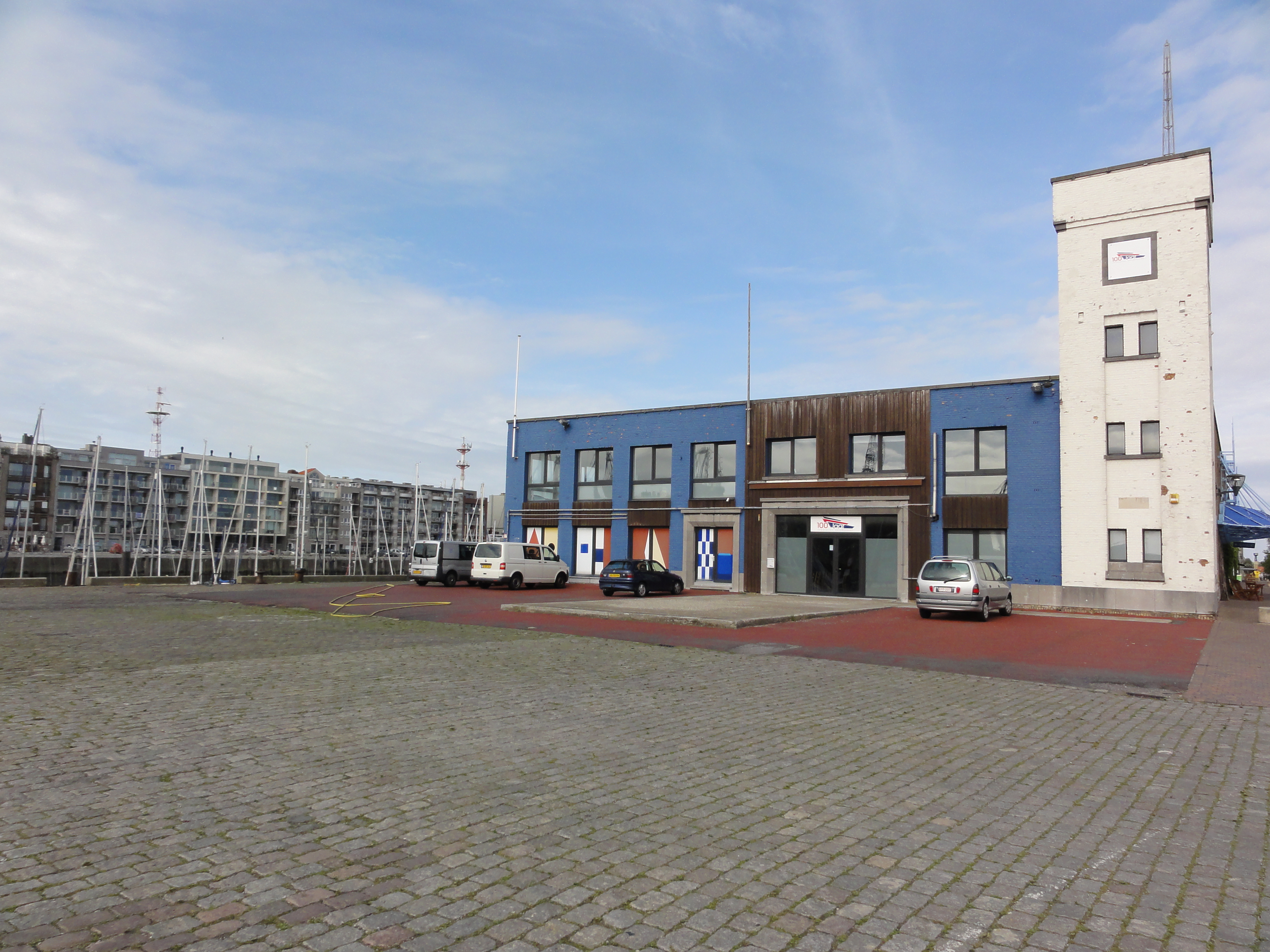 Oude Vismijn (Old Fish Market), nowadays Seafront Zeebrugge maritime theme park, in Zeebrugge. Zeebrugge, Brugge, West-Flanders, Belgium